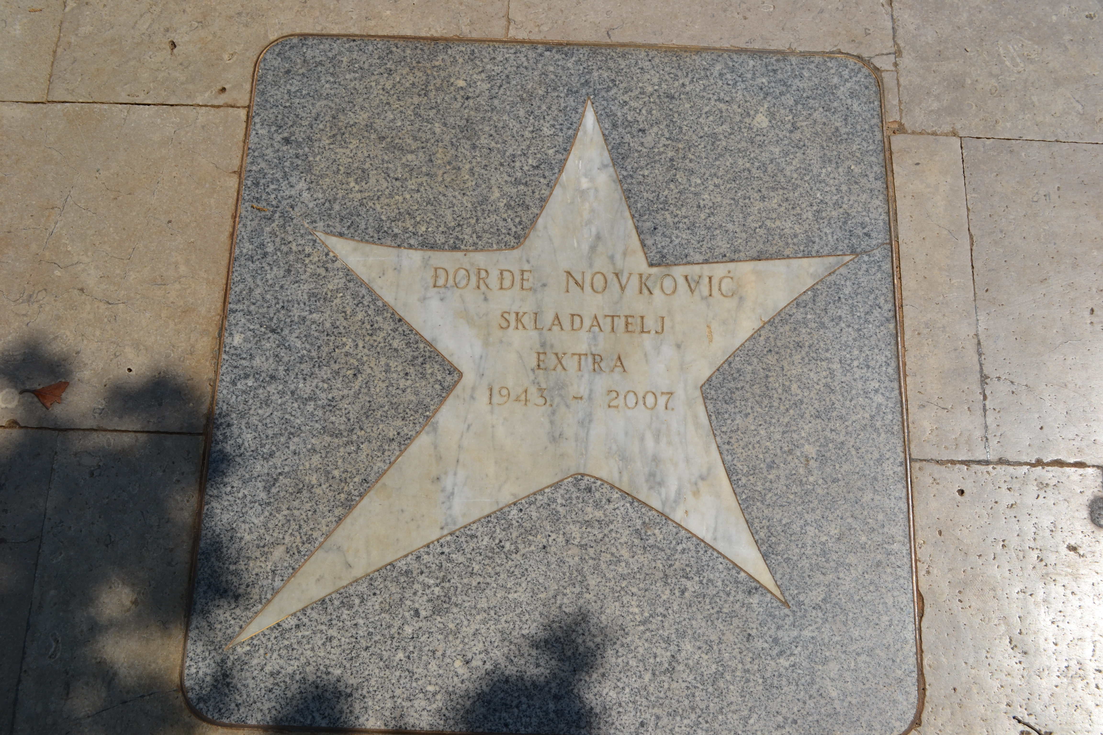 Croatian walk of fame with star of Djordje Novkovic - composer, Opatija, Croatia